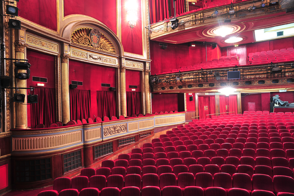 Foto Teatro Lope de VEga. Patio de butacas.